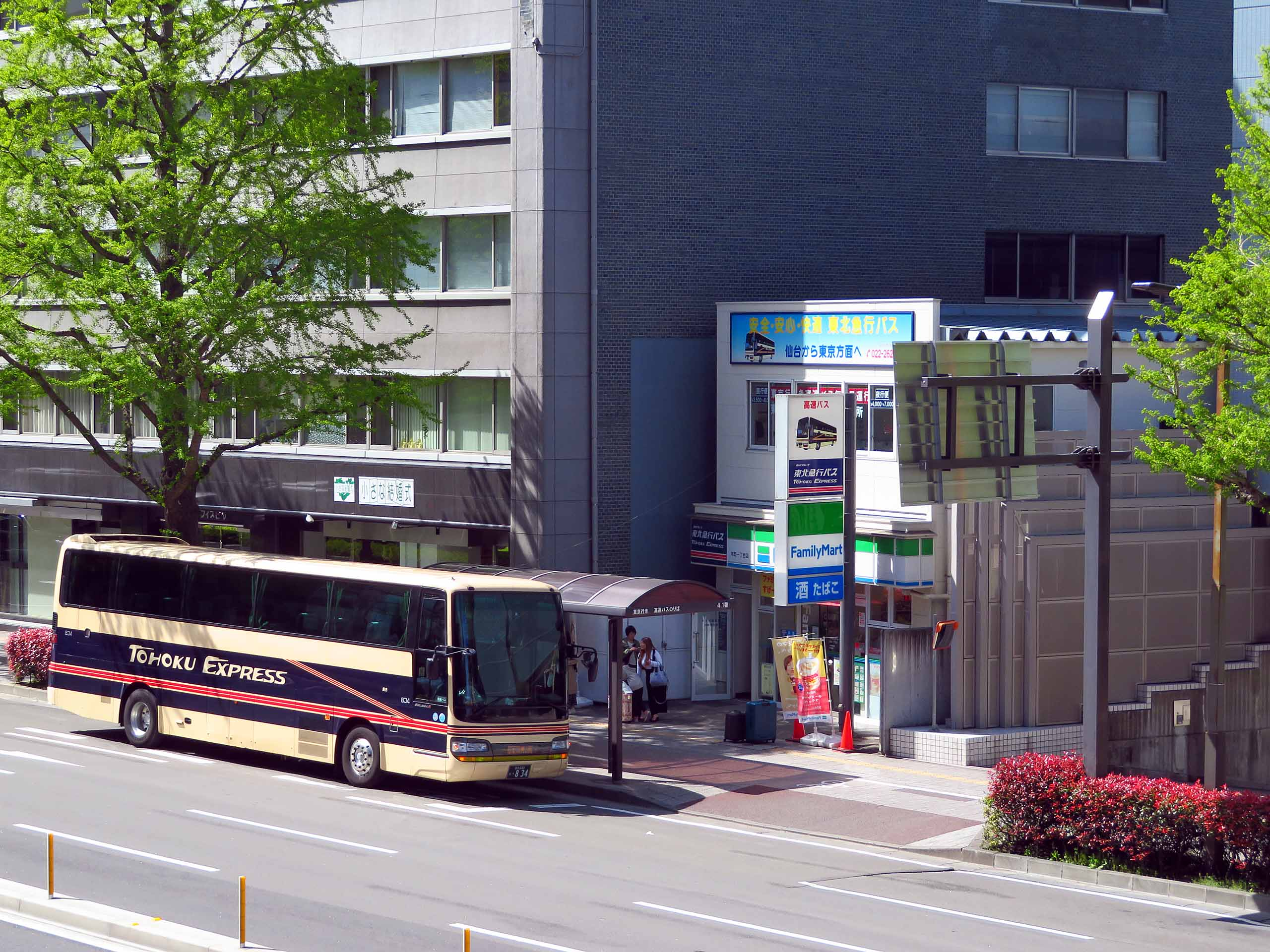 Tohoku Express "New Star" bound for Tokyo, stopping at Sendai Depot. Model: Hino Selega R KL-RU1FSEA License plate: TKA230 A0834